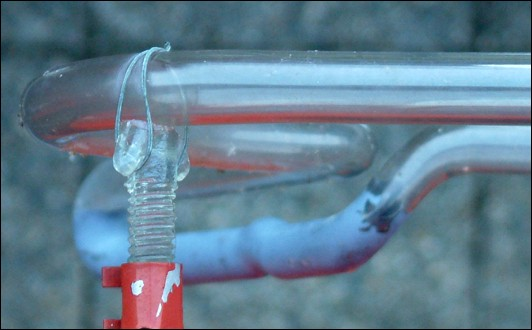 Part of a neon tube (switched off). Related image:image:neonhrp.jpg Photographer: Anton 2006